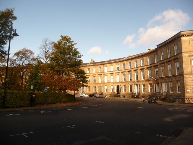 Glasgow: north side of Park Circus A graceful curve of terraced town houses catches the sun.